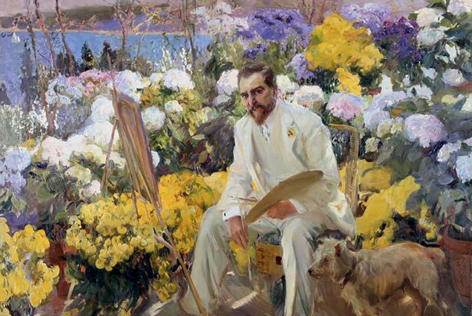 Louis Comfort Tiffany by Joaquín Sorolla, 1911, oil on canvas, 150.5 x 225.4 cm. Hispanic Society of America, New York